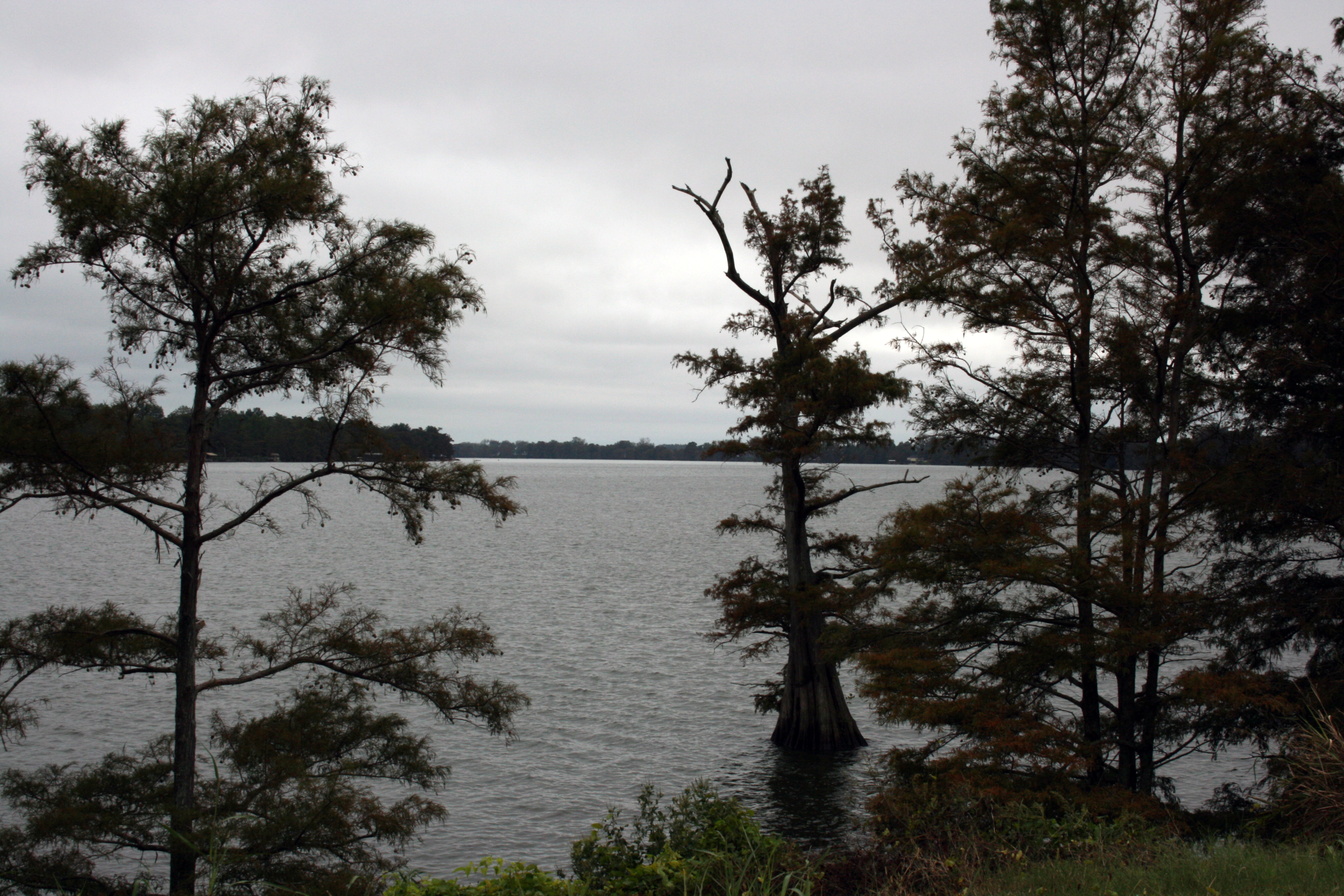 Lake Providence. Shot from the shoulder of US 65 at the end of LA 2. Facing south-east toward the town of Lake Providence, LA.